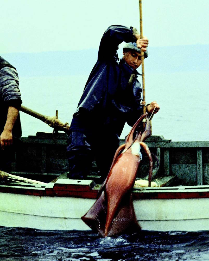 calamar gigante. Estación de Biología Marina de Montemar, Viña del Mar, Valparaíso Region, Chile